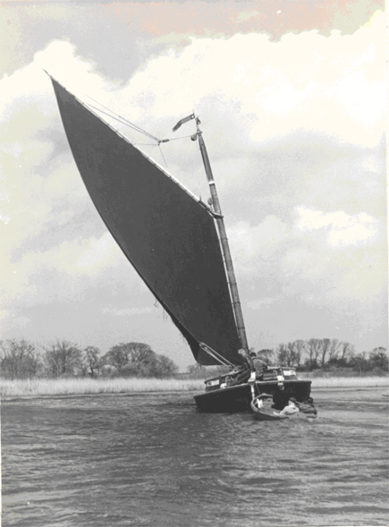 Wherry Albion running in Old Staithe Reach on the Norfolk Broads on Sunday 21st April 1963